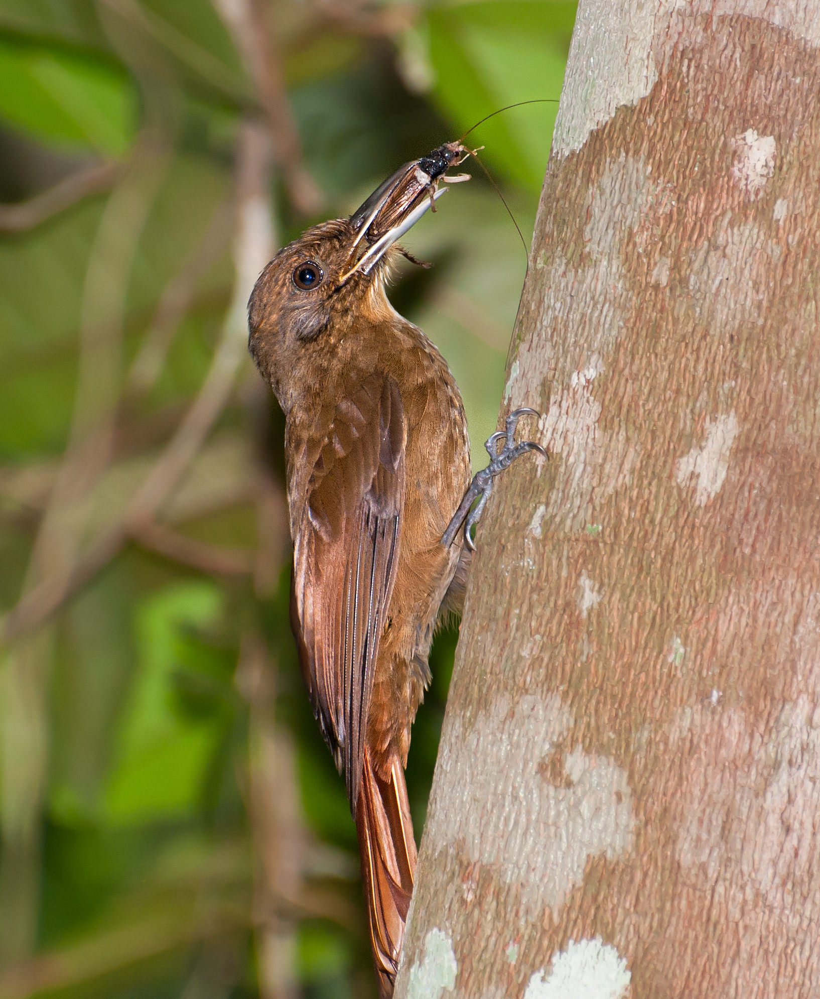 A Plain-winged Woodcreeper in Vale do Ribeira, Registro, Sao Paolo, Brazil.